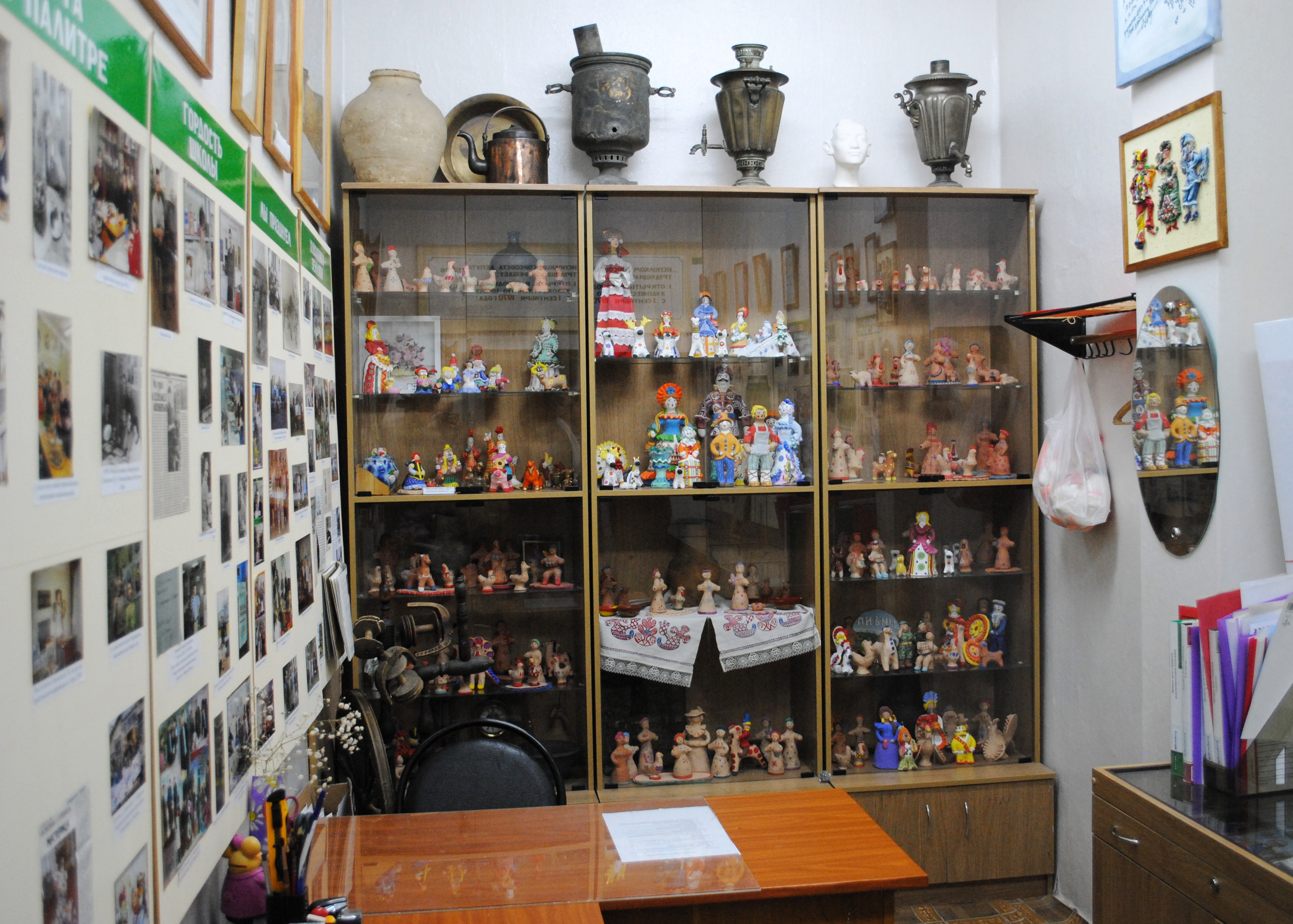 Livny's children's art school